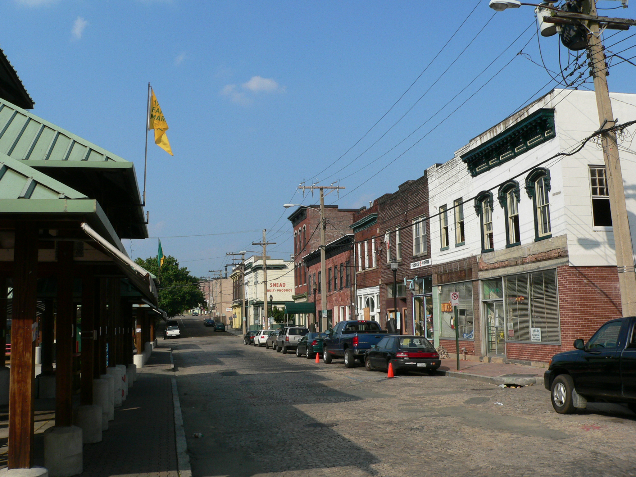 View north on 17th Street at the Farmers' Market, in Shockoe Bottom, Richmond, Virginia.